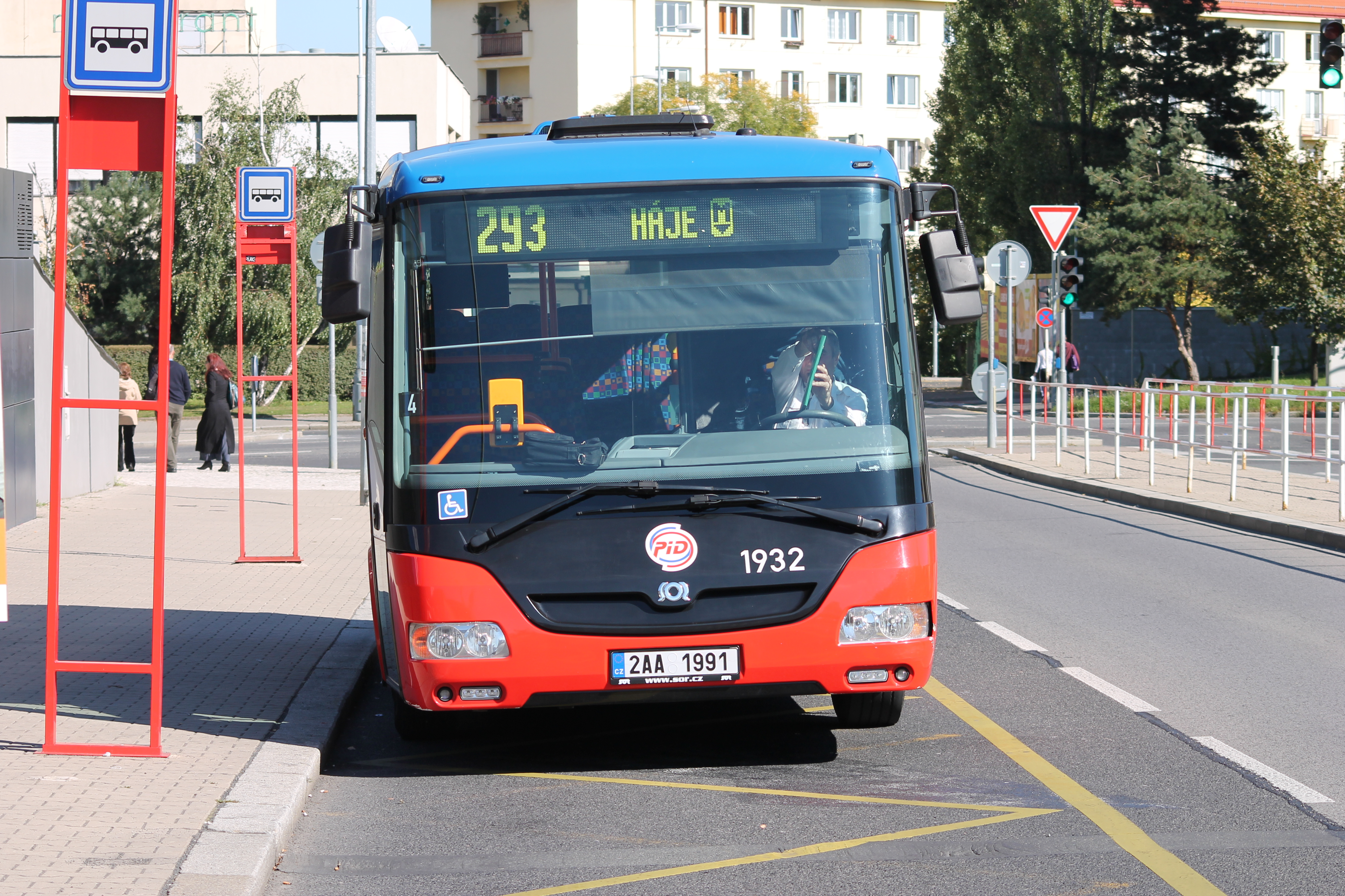 Bus SOR CN 8,5 number 1932, line 293, Poliklinika Budějovická stop, Prague